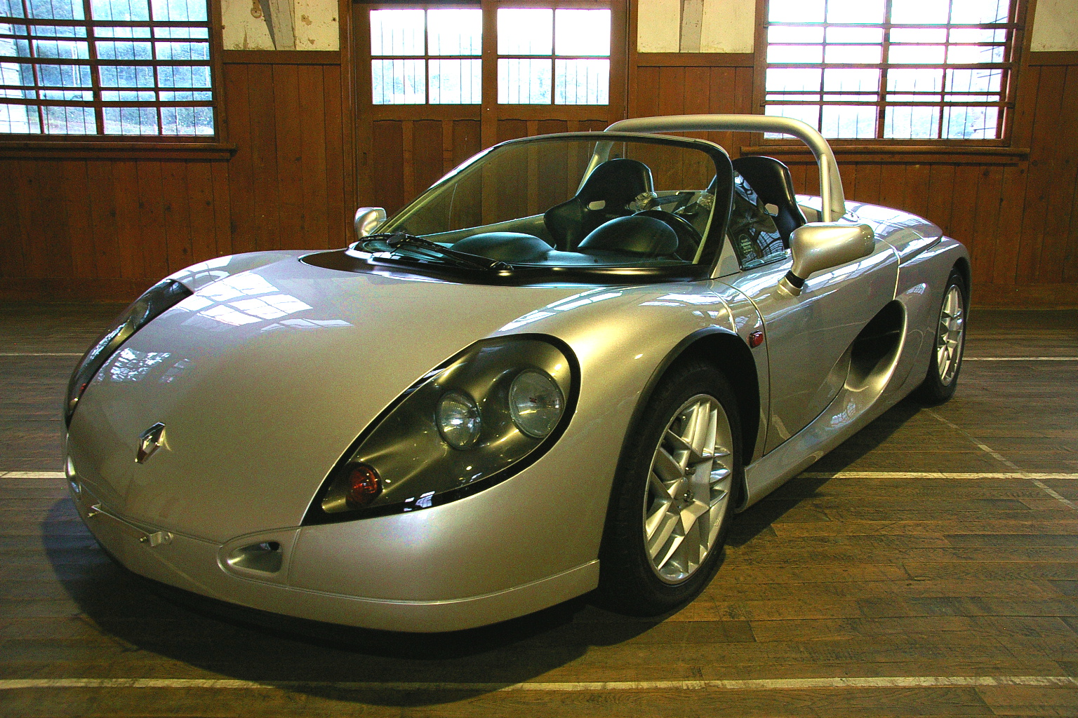 Renault Sport Spider Japan Limited.